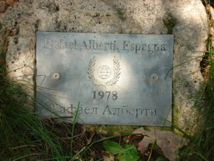 Struga Poetry Evenings ( Струшки вечери на поезијата ), Struga, Republic of Macedonia